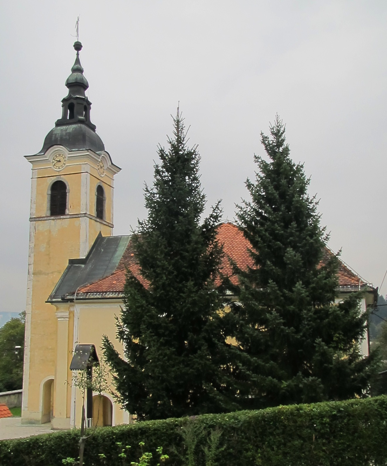 Church in Bizovik, Ljubljana, Slovenia